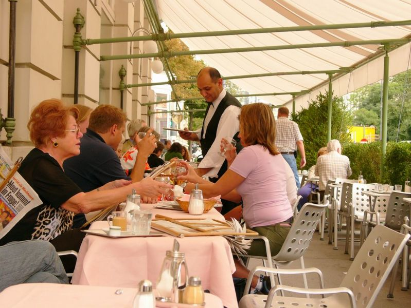 Schanigarten at Café Prückel, Vienna, Austria